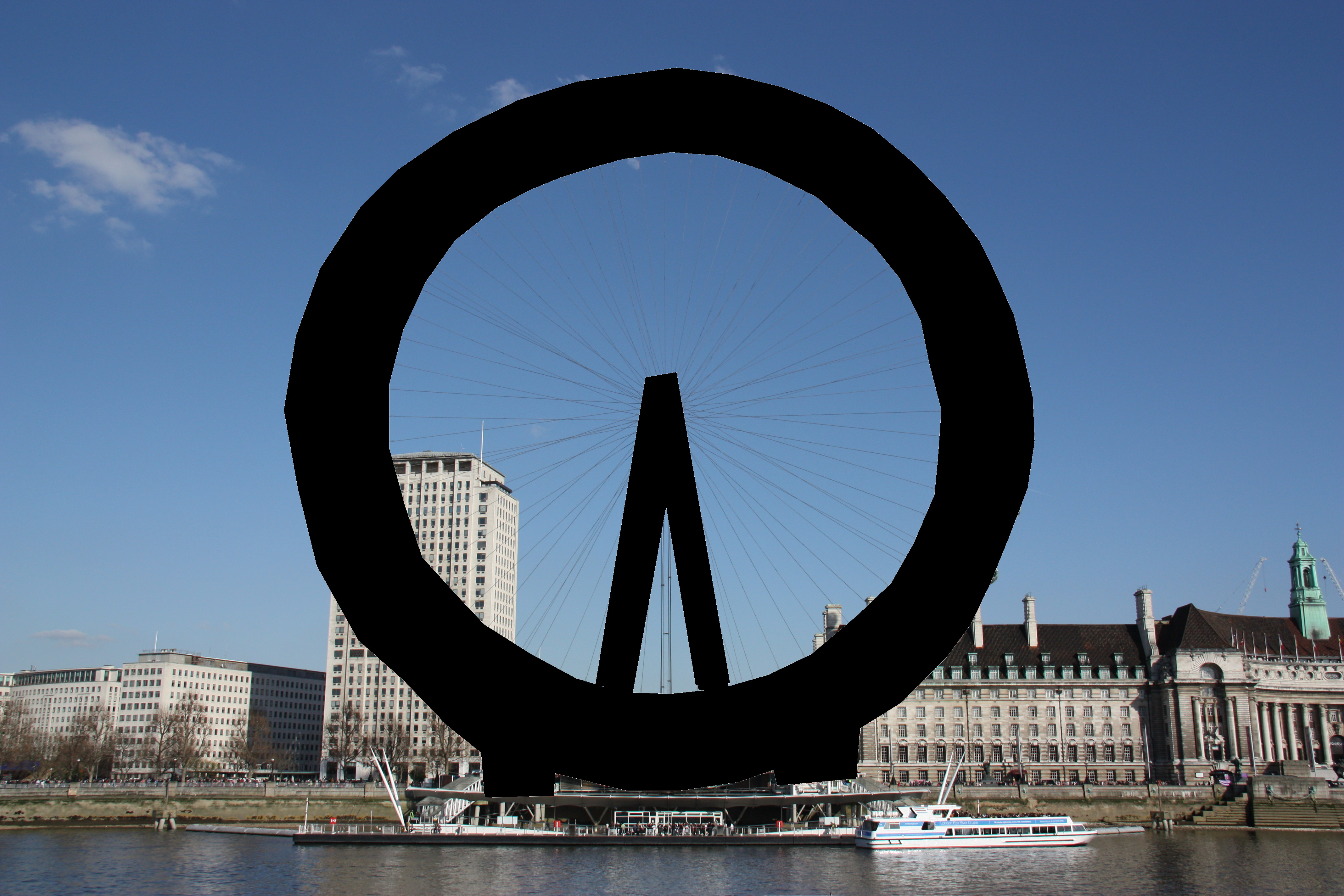 Image of the London Eye, blacked out to show the effect of removing CDPA s62 allowing photography of buildings in the UK.